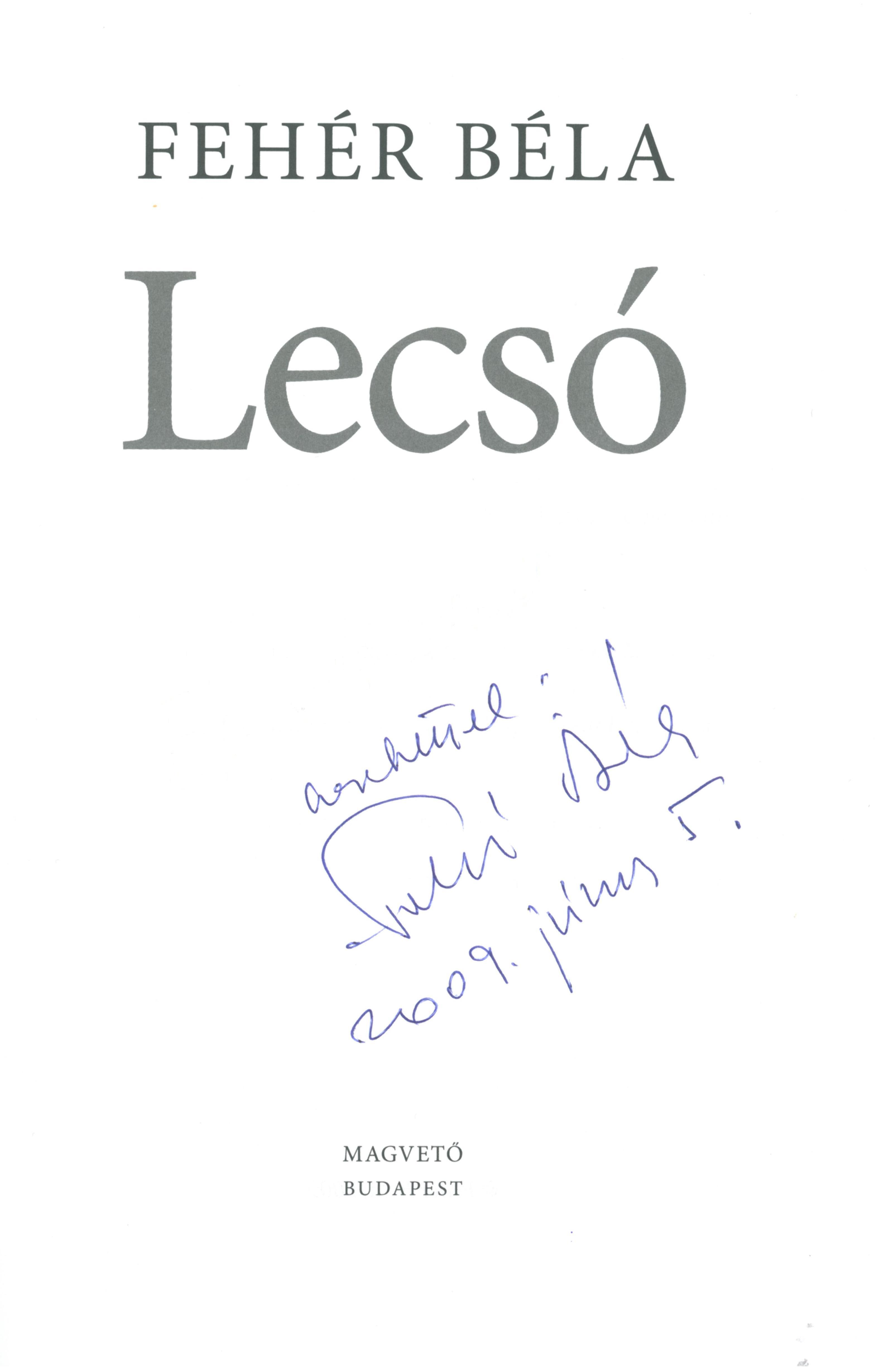 Béla Fehér signed his book on 5th June 2009